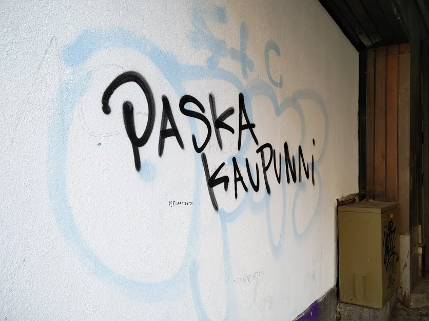 Paska kaupunni (misspelled Finnish for shitty city) graffiti at Uusikatu 22 in Oulu, Finland.